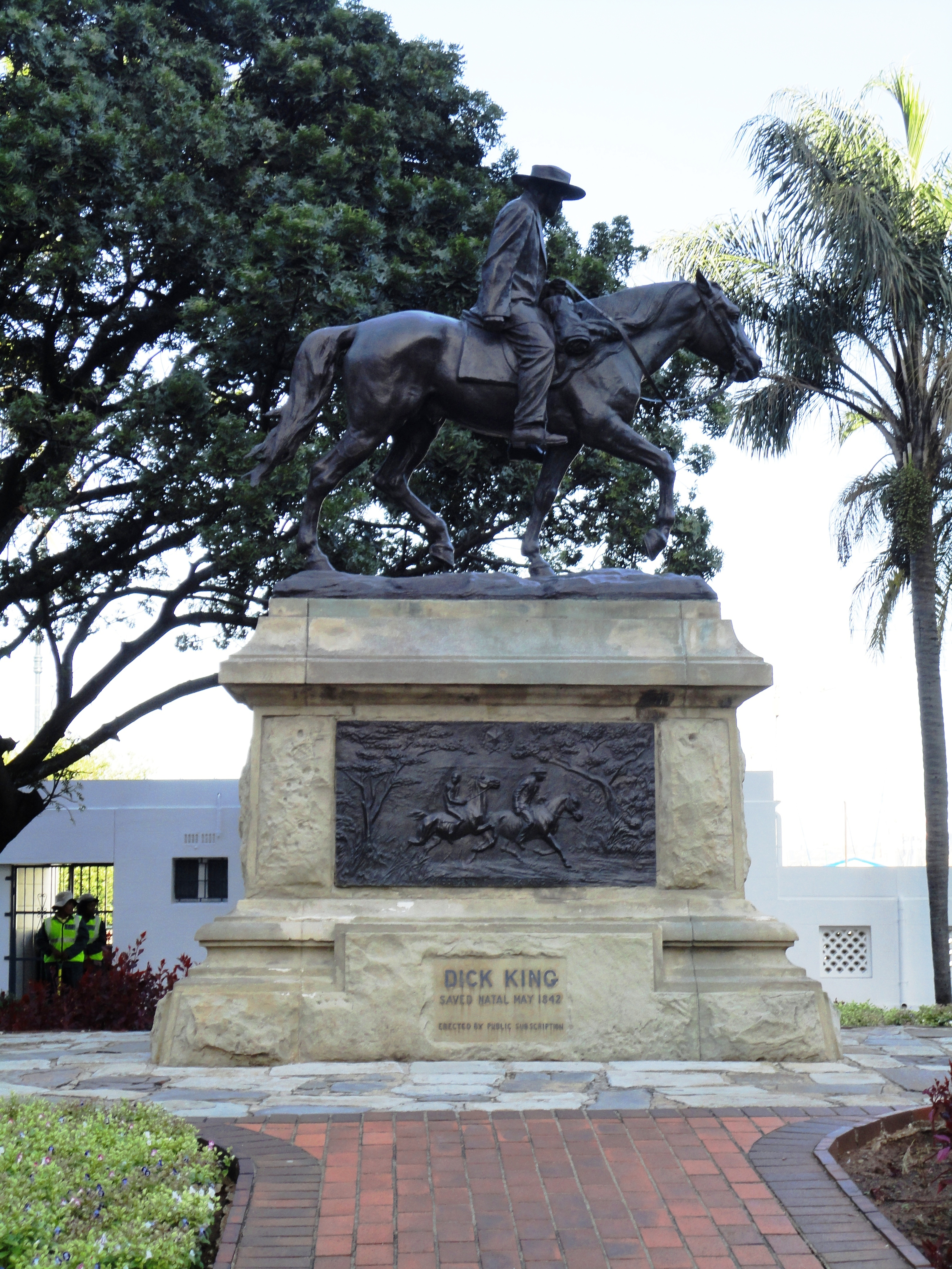 Equestrian statue of Dick King, with pedestal, Durban